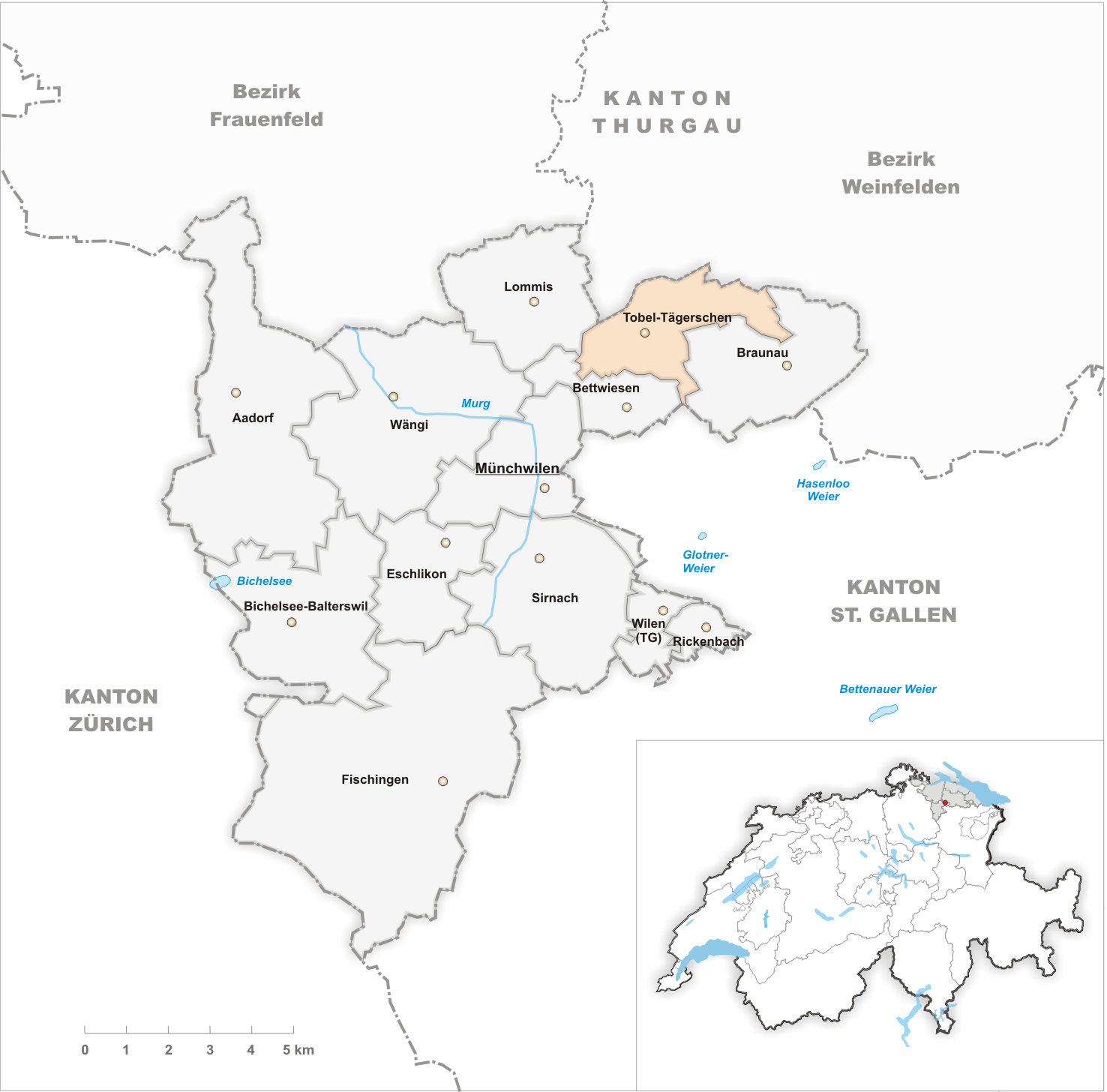 Municipality Tobel-Tägerschen